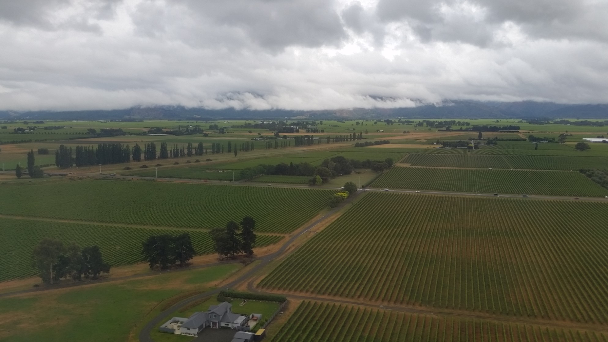 View of Marlborough vineyards from an airplane just outside the Blenheim airport